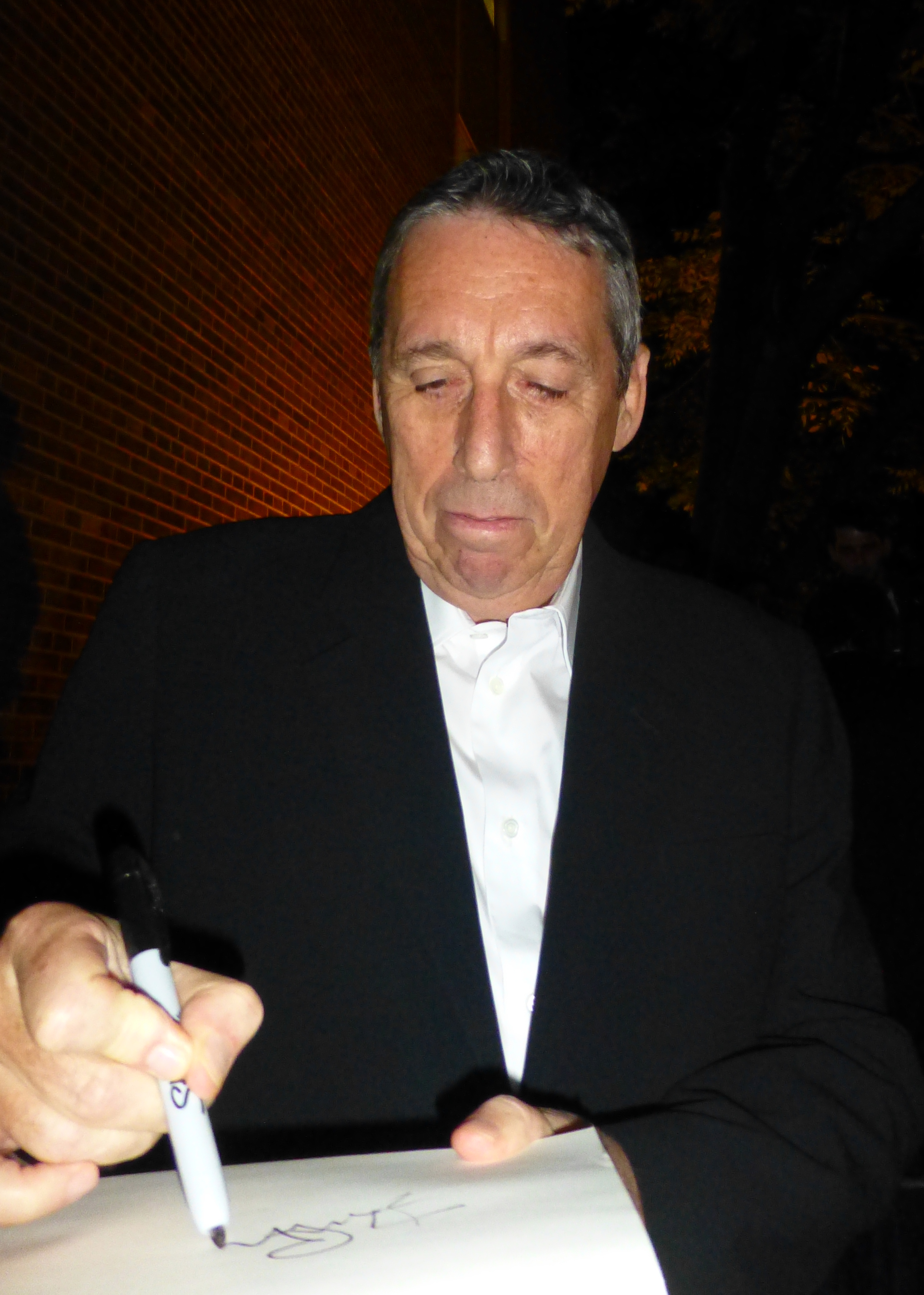 Ivan Reitman at the premiere of Men, Women, and Children, 2014 Toronto Film Festival